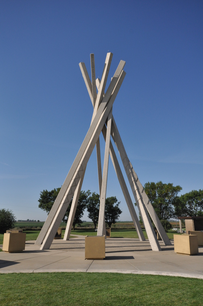 Salem Rest Stop Tipi-Eastbound, near Salem, South Dakota.